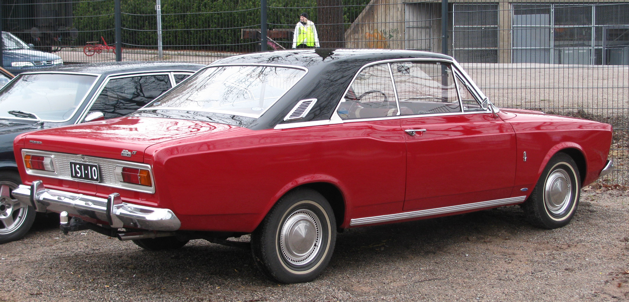 Ford Taunus 20M, Classic Motor Show parking lot in Lahti, Finland